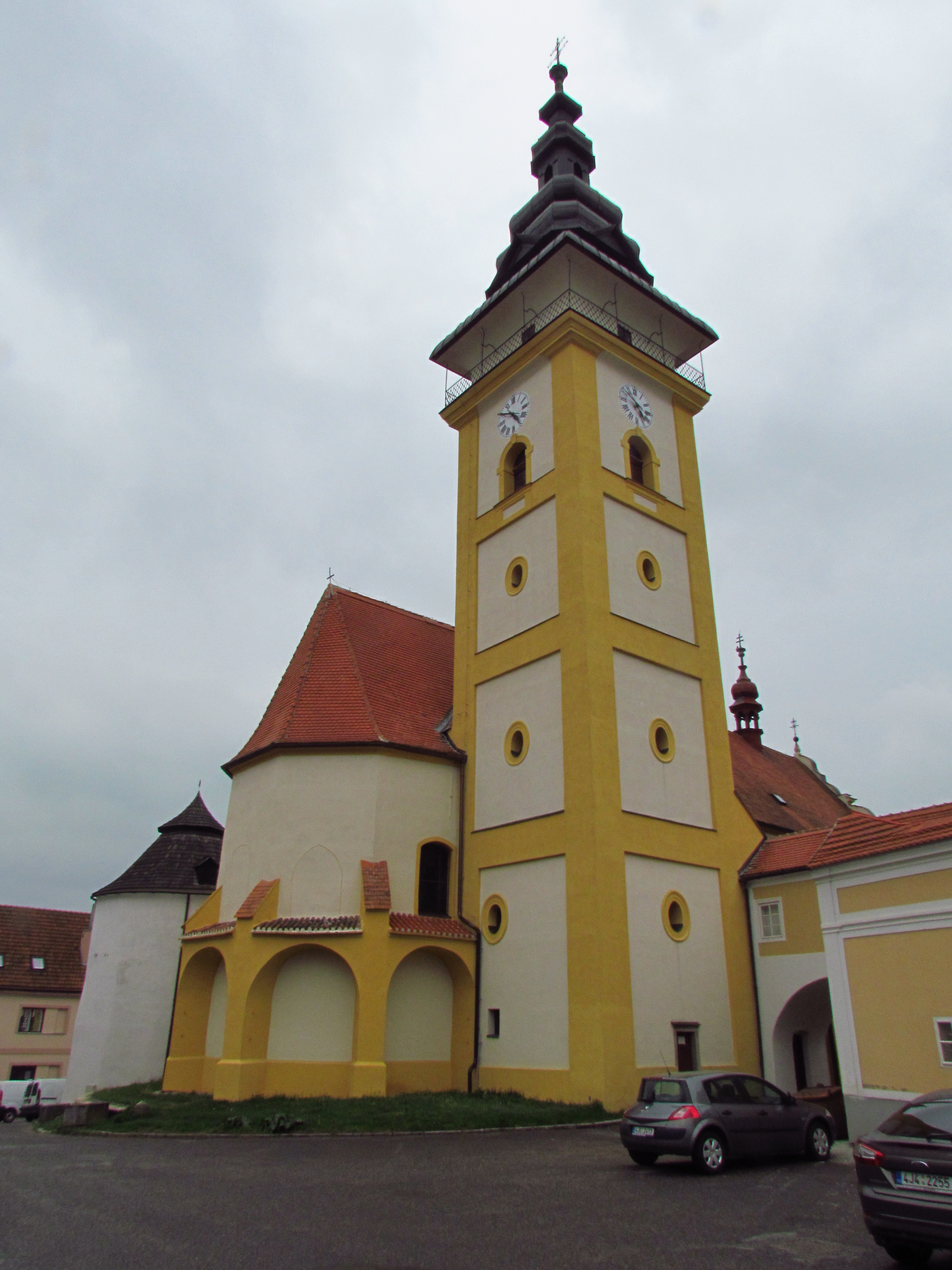 Overview of Church of Saint Giles in Moravské Budějovice, Třebíč District.